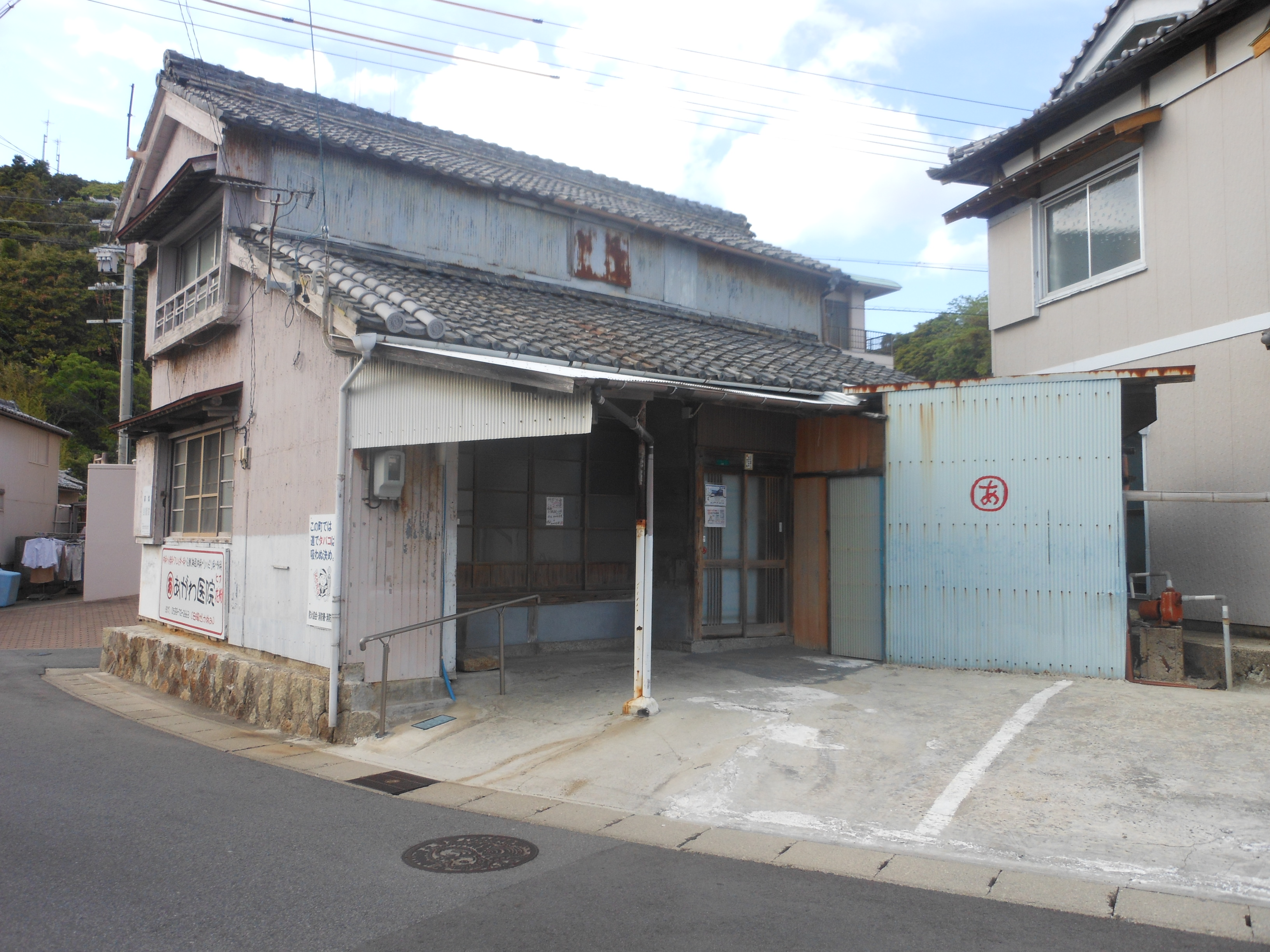 A hospital in Japan.